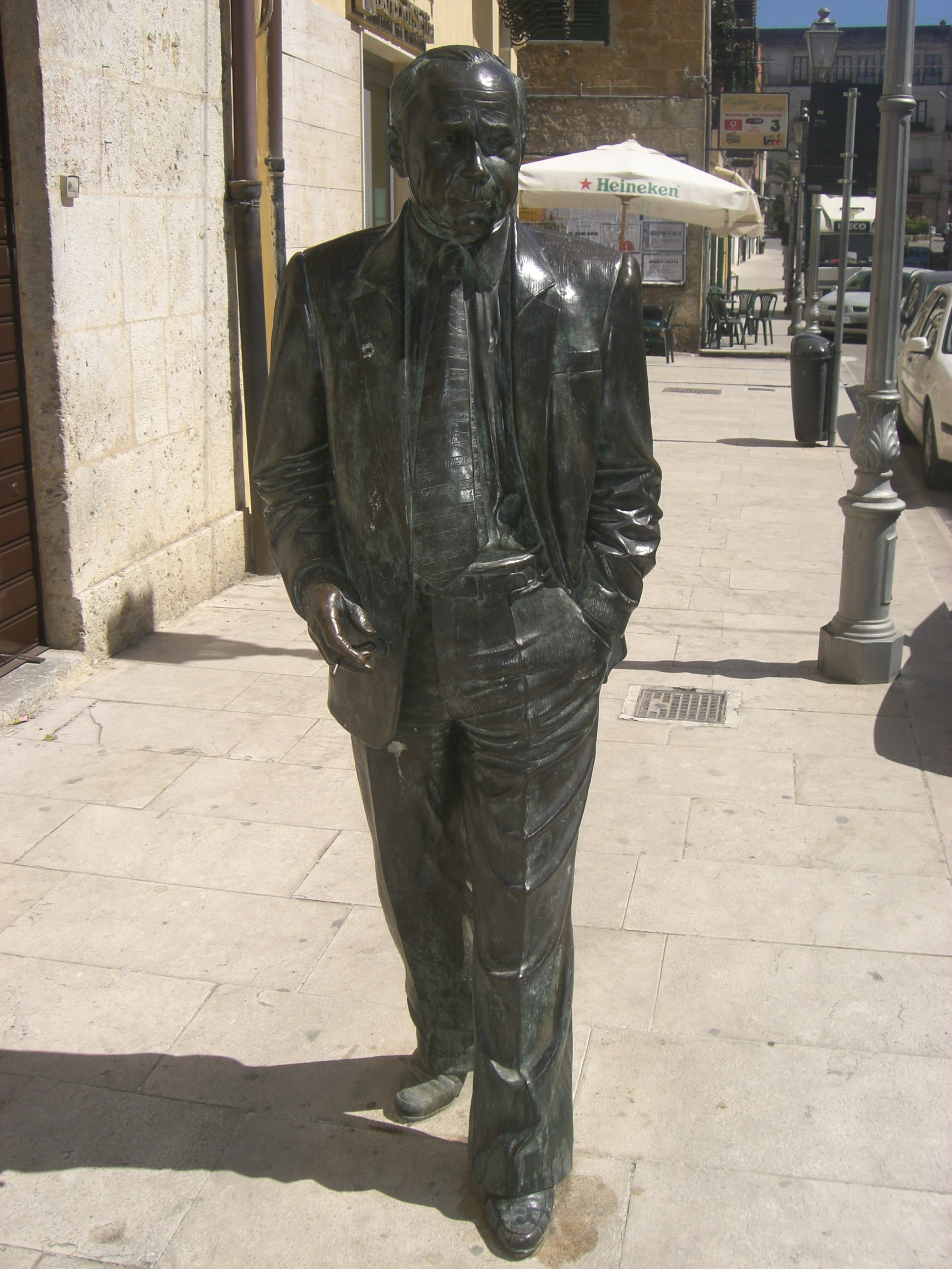 Statue of the writer Leonardo Sciascia in Racalmuto, Sicily